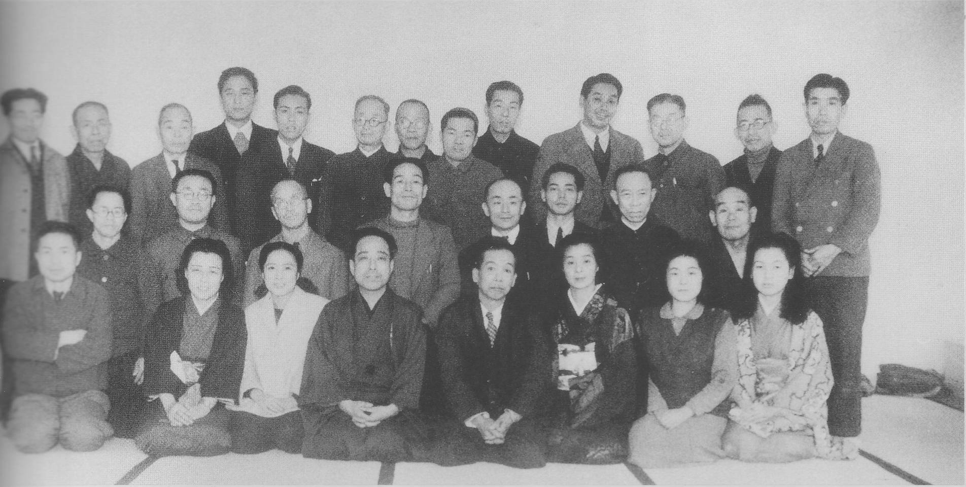 Original Member form Shochiku Sjhin-Kigeki (Japanese comedy), 1948.